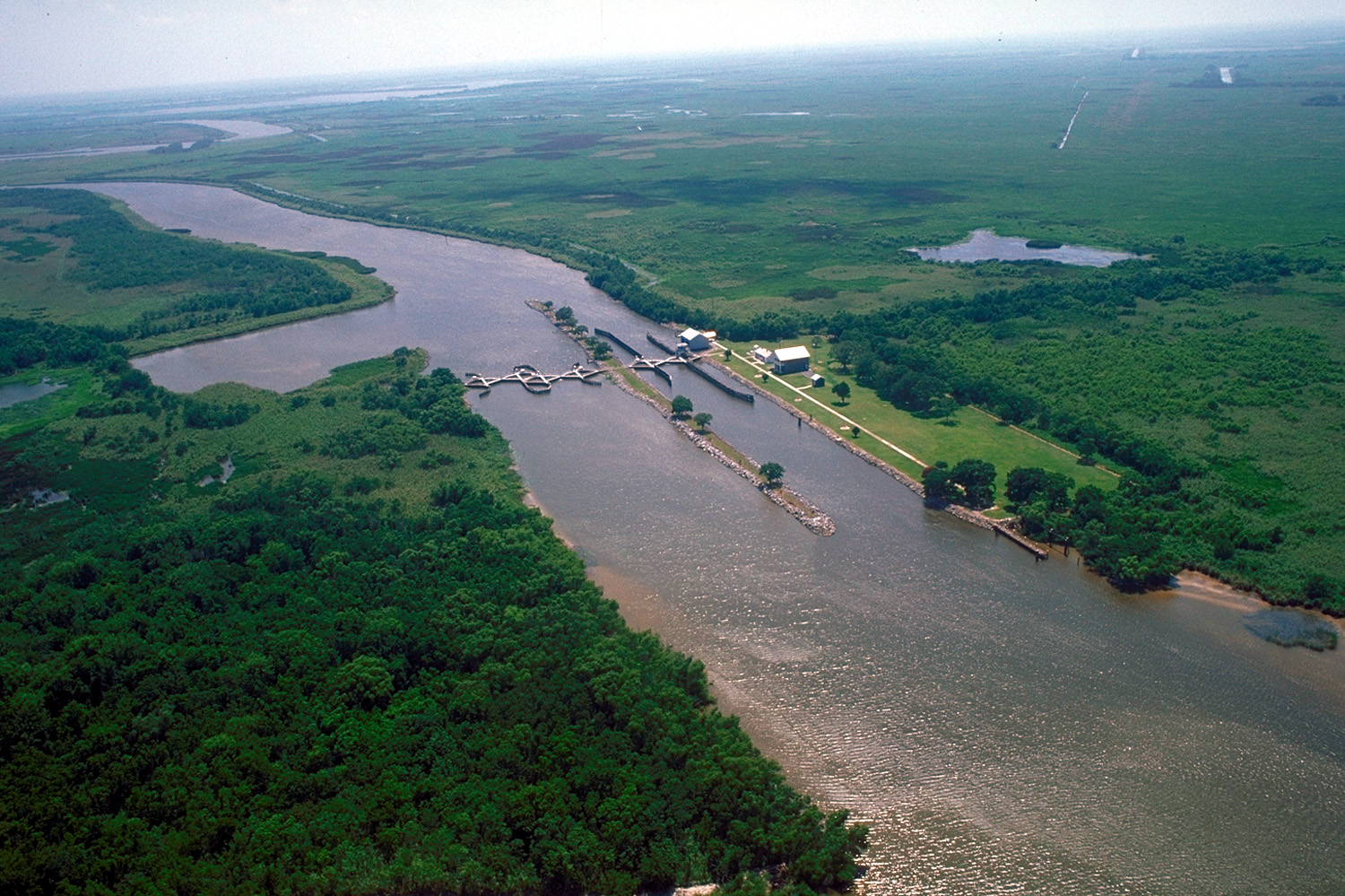 Catfish Point Control Structure, at the outlet of Grand Lake into the Mermentau River, which flows into Vermilion Bay in the Gulf of Mexico. The lock is located in at the east end of Cameron Parish, Louisiana, USA. This lock is a salt water intrusion barrier to prevent the waters from the Gulf of Mexico from intruding into Grand Lake and the freshwater bayous and rivers.